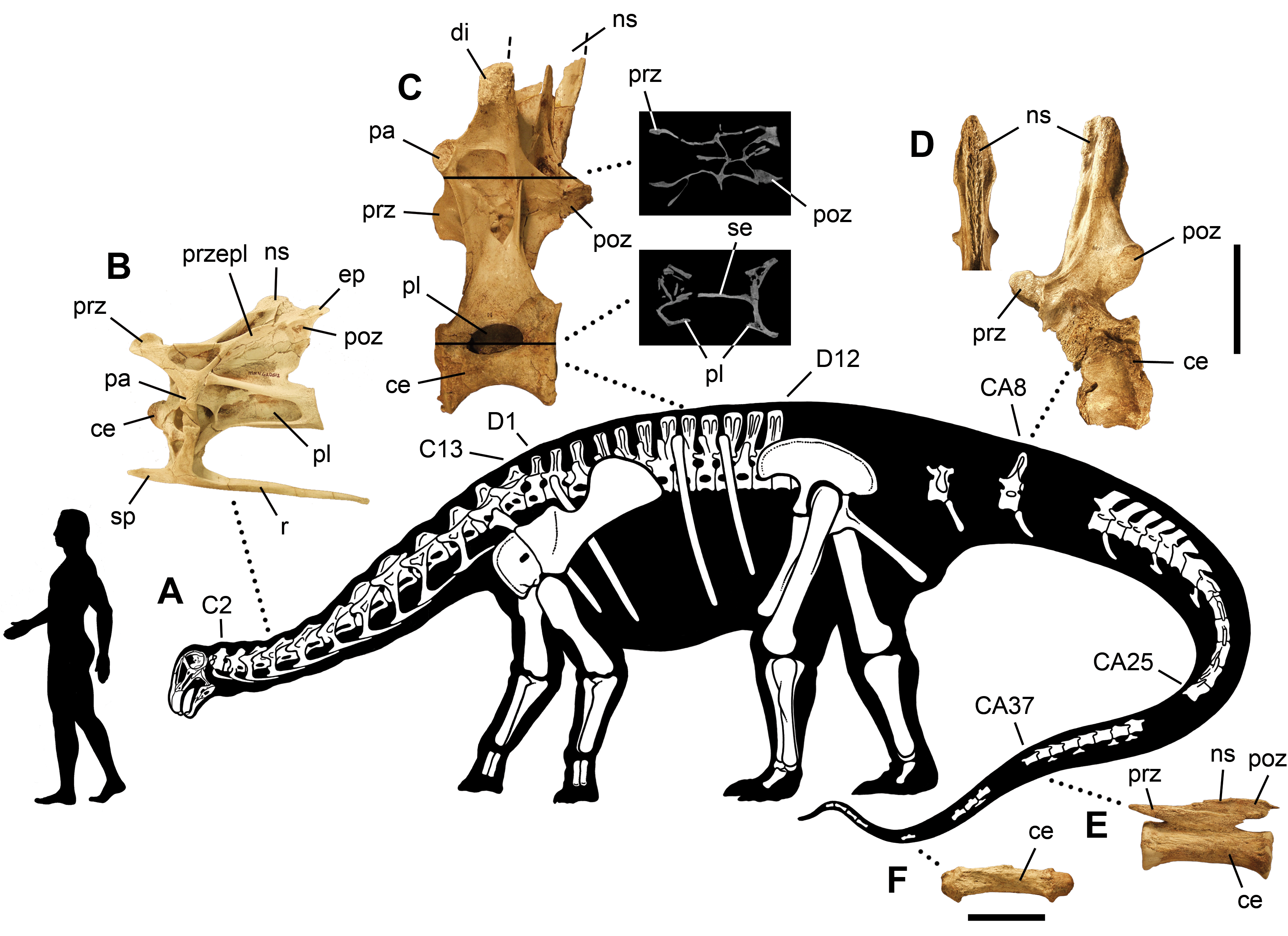 Skeleton of Nigersaurus taqueti. Skeletal reconstruction is based mainly on four specimens (MNN GAD513, GAD 515-518). (A)-Skeletal silhouette showing preserved bones. (B)-Fifth cervical vertebra in lateral view. (C)-Eighth dorsal vertebra in lateral view with two cross-sections from a µCT scan. (D)-Probable eighth caudal vertebra in lateral view with anterior view of the neural spine. (E)-Caudal vertebra (ca. CA37) with low neural spine. (F)-Distal caudal vertebra (ca. CA47) with biconvex centrum and rudimentary neural arch. Human silhouette equals 1.68 meters (5 feet 6 inches). Upper scale bar equals 10 cm for B-E; lower scale bar equals 5 cm for F. Abbreviations: C, cervical vertebra; CA, caudal vertebra; ce, centrum; D, dorsal vertebra; di, diapophysis; ep, epipophysis; ns, neural spine; pa, parapophysis; pl, pleurocoel; poz, postzygapophysis; prz, prezygapophysis; przepl, prezygapophyseal-epipophyseal lamina; r, rib; se, septum; sp, spine.